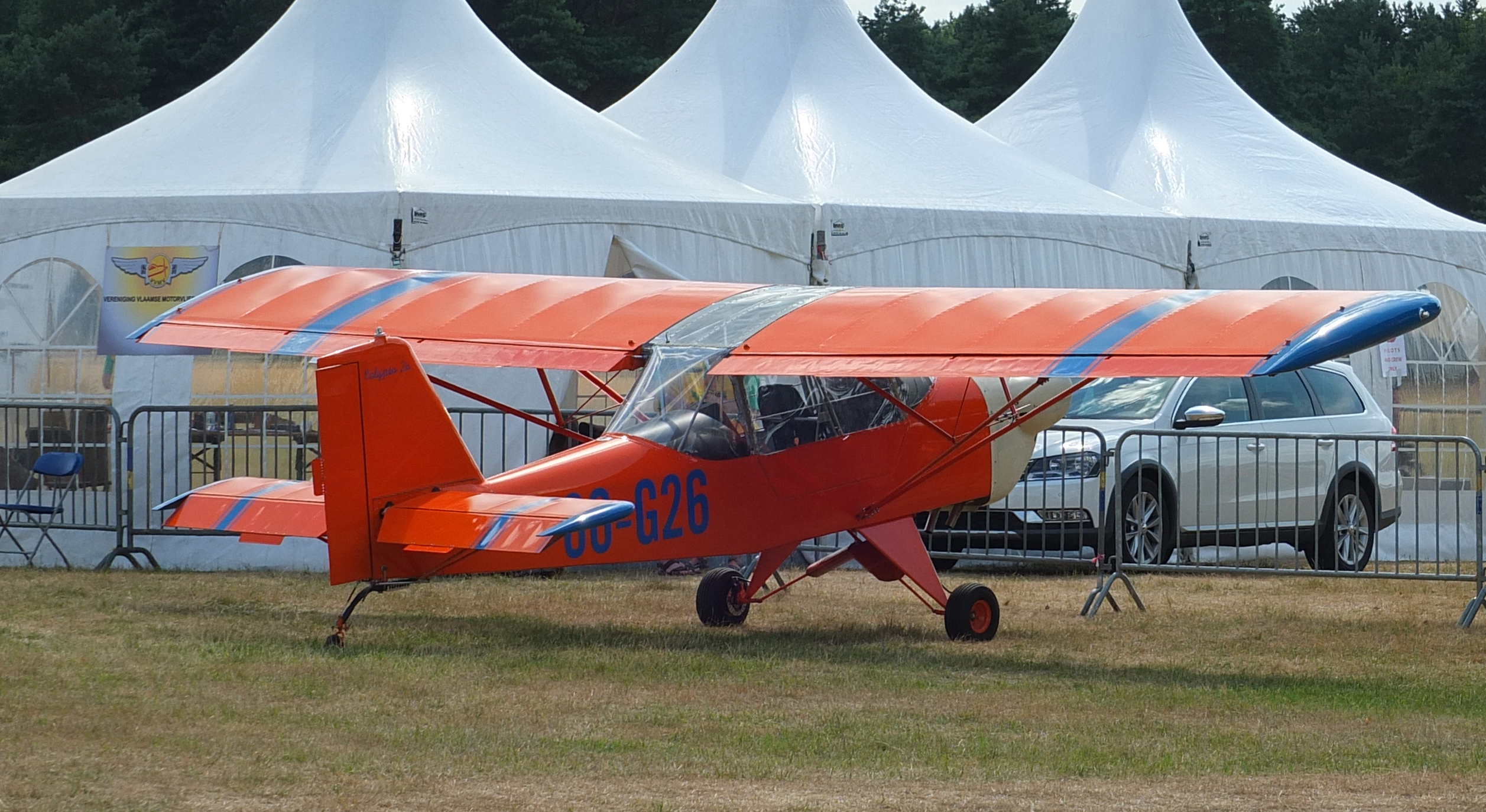 Ultracraft Calypso 2A OO-G26 (c/n 003), built in 2009, at Keiheuvel Aeroclub's Fly In 2013.